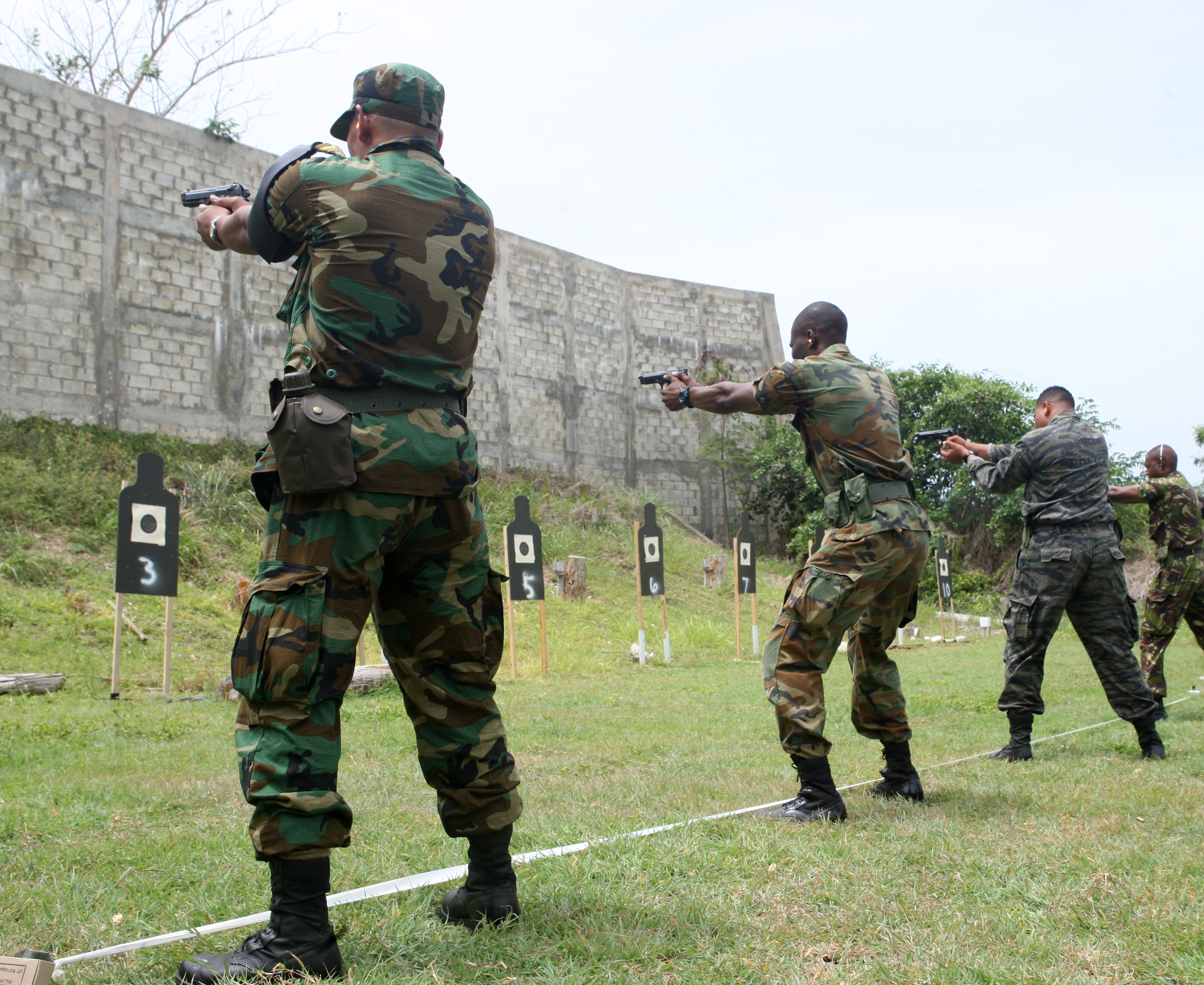 CHRIST CHURCH, Barbados —Law enforcement and defense personnel from partner nations fire pistols at Barbados Defense Force Paragon, Christ Church, Barbados, June 16, 2012, during Exercise Tradewinds 2012. Tradewinds is a CJCS-approved, USSOUTHCOM-sponsored exercise supporting the Theater Security Cooperation (TSC) plan, and involving security forces from 17 partner nations (PN),primarily from the Caribbean Basin AOR and will also include participants from Canada and the U.S. (U.S. Marine Corps photo by Cpl. Nana Dannsa-Appiah/Released)